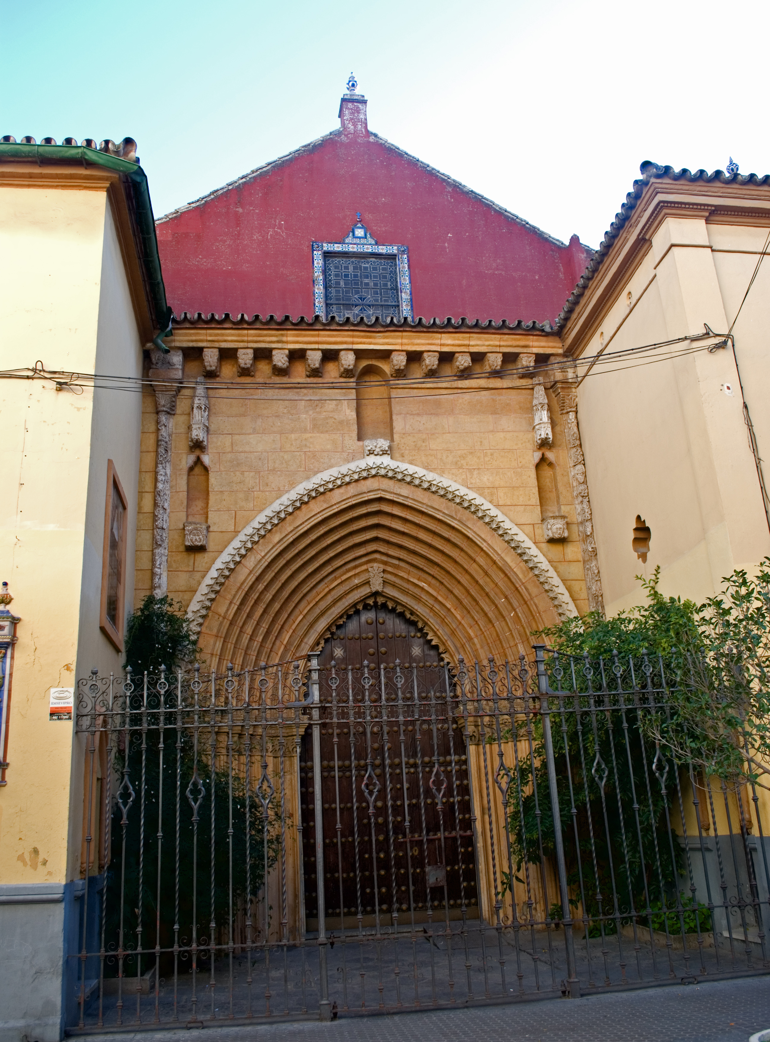 Church of San Juan de la Palma, Seville